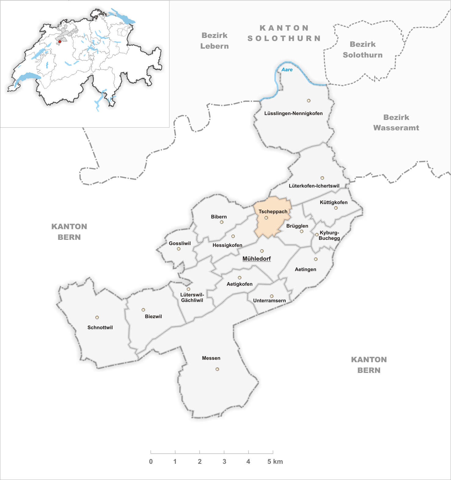 Municipality Tscheppach